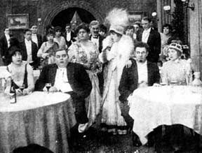 Still from the American film That Little Band of Gold (1915).